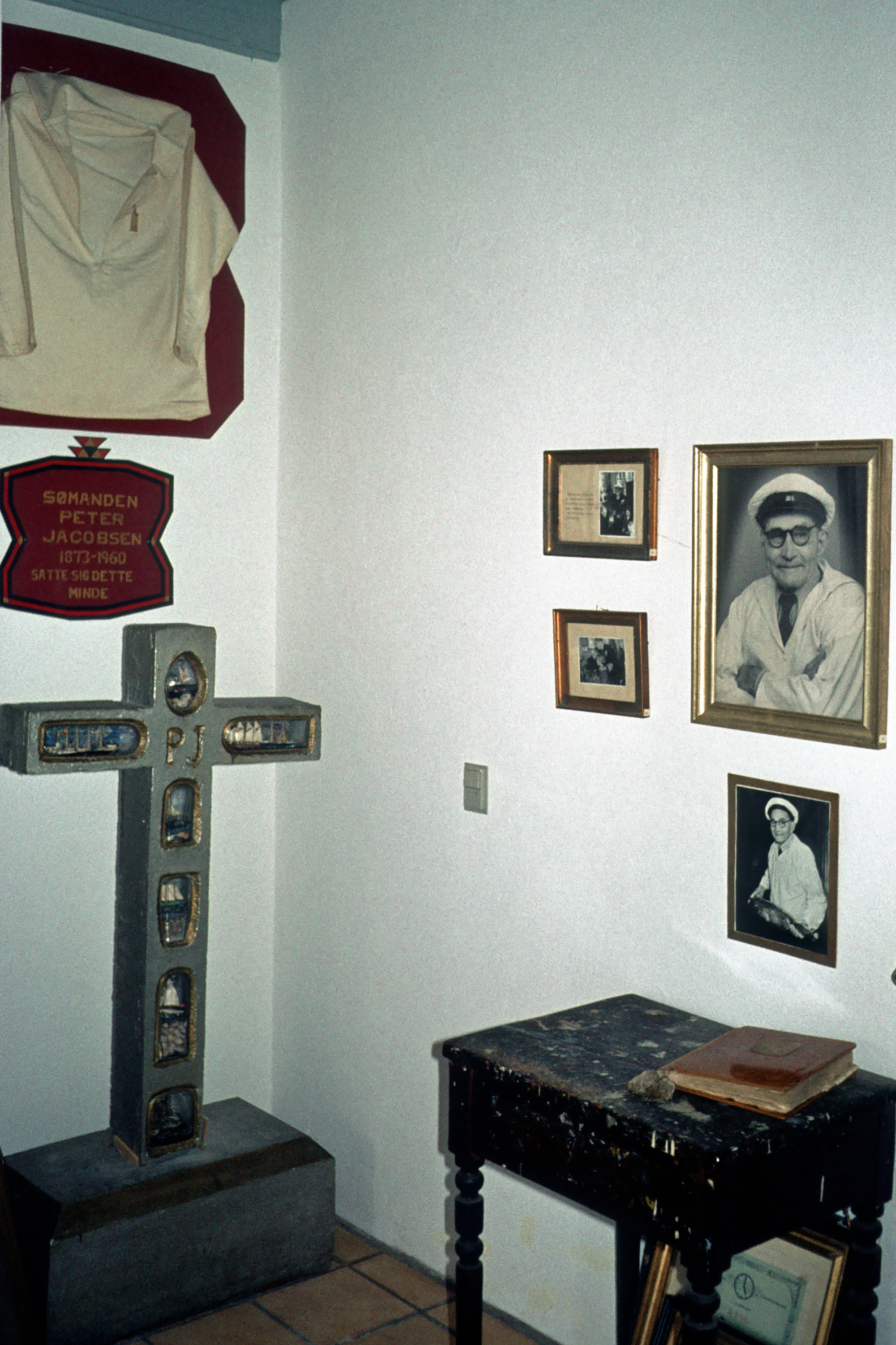 Part of 'Flaske-Peters' collection